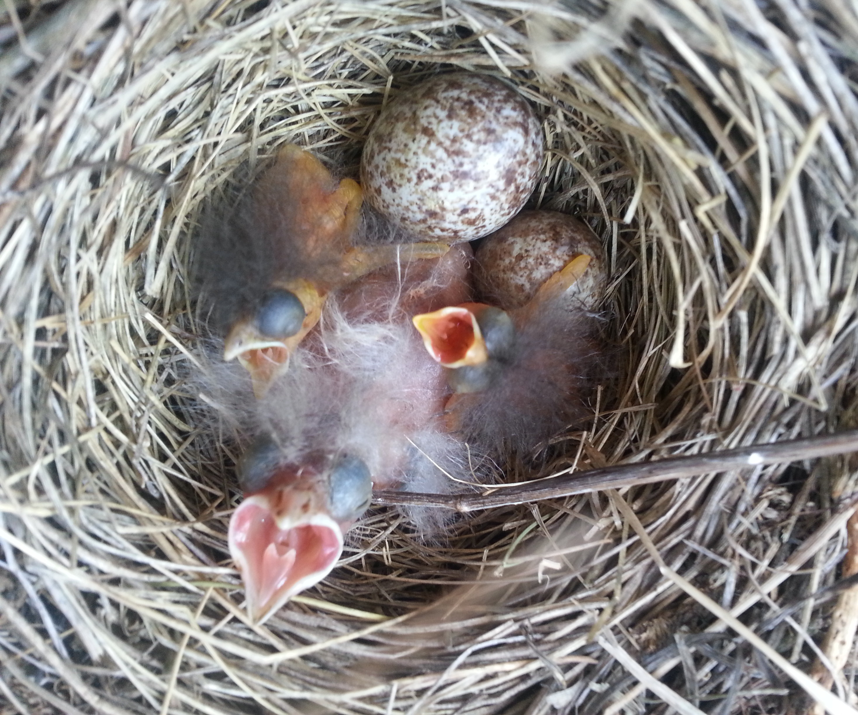 Savannah Sparrow, Passerculus sandwichensis, nestlings and eggs with much larger Brown-headed cowbird, Molothrus ater, nestling. NOTE: This nest was photographed as part of a nest monitoring project in the oil fields of Alberta, Canada by a professional trained in viewing sensitive nests and minimizing the disturbance to the birds and the surrounding vegetation. Photographing nests simply to "snap a cute pic" can expose them to predators and disrupt the feeding and care of nestlings!¬¬